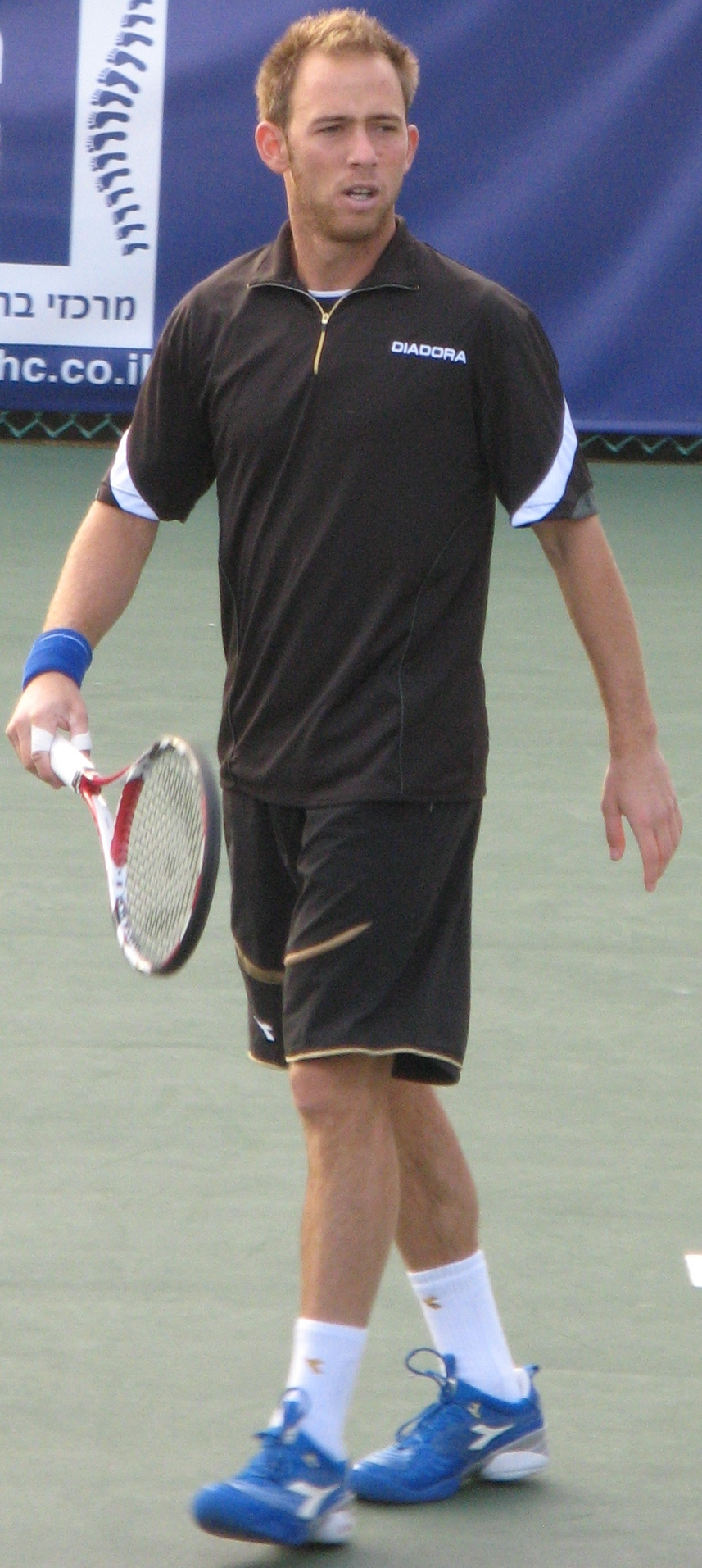 Israeli tennis player Dudi Sela at the Israel tennis championship 2008 final against Harel Levy